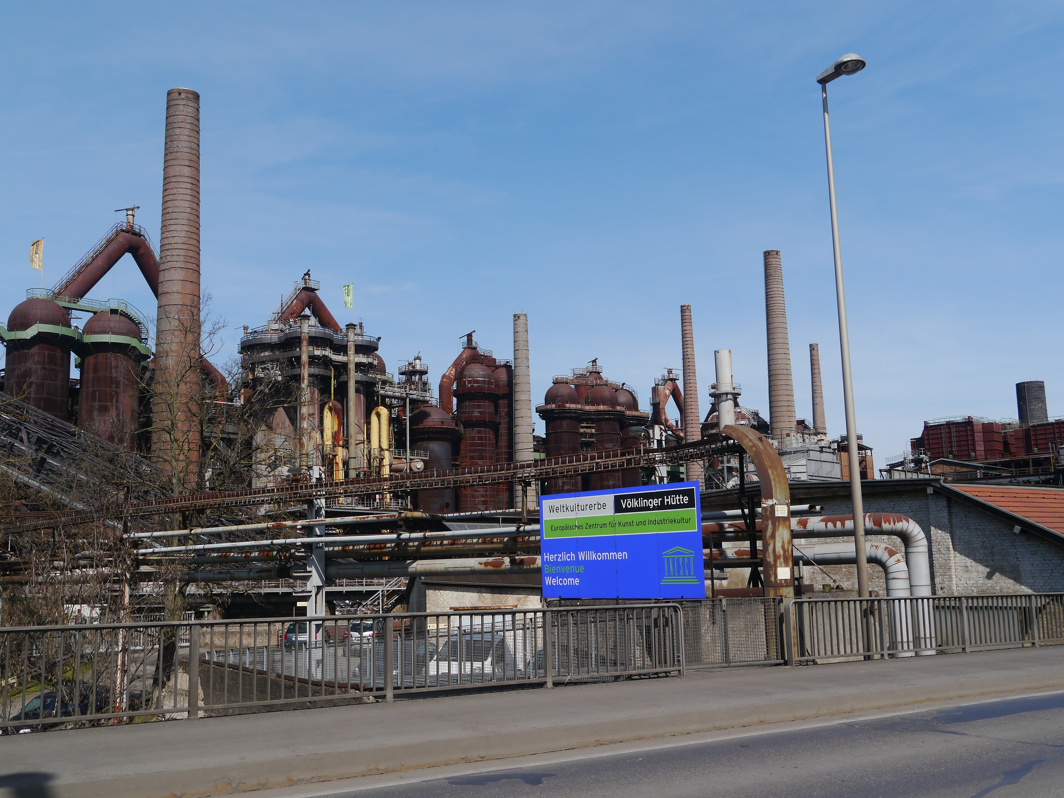 Völklingen Ironworks, Völklingen